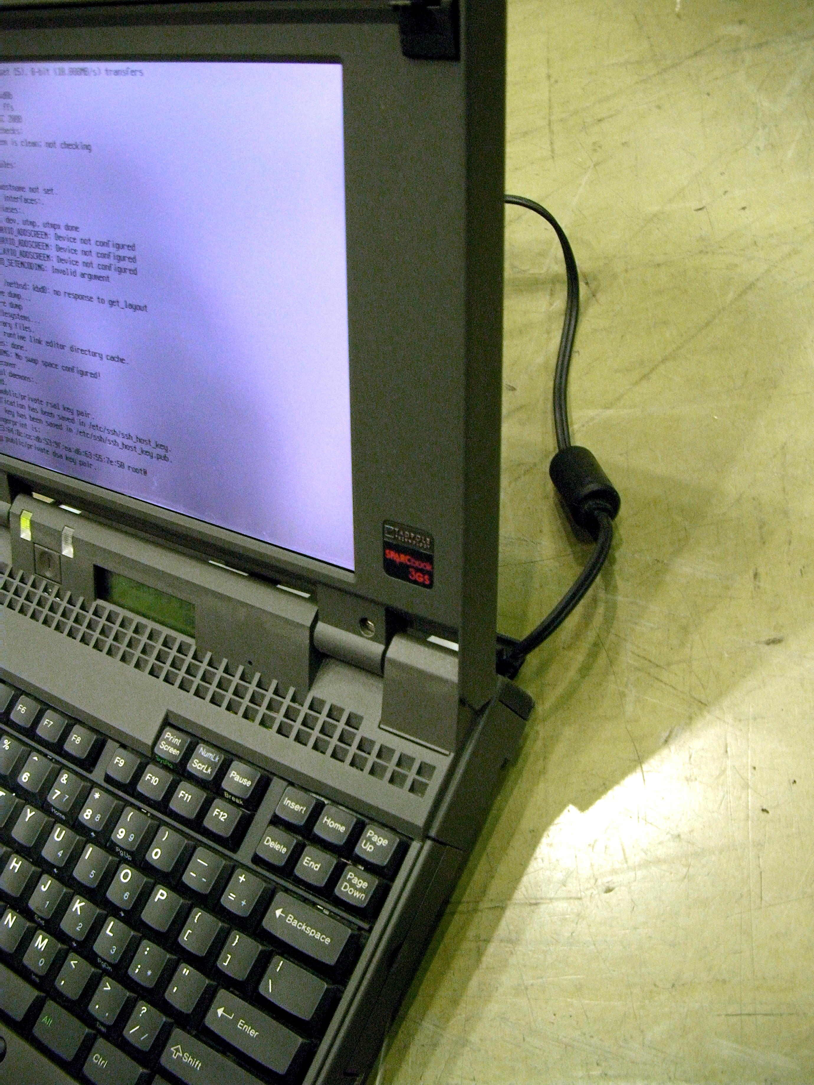 SPARCbook 3GS from Tadpole Computer